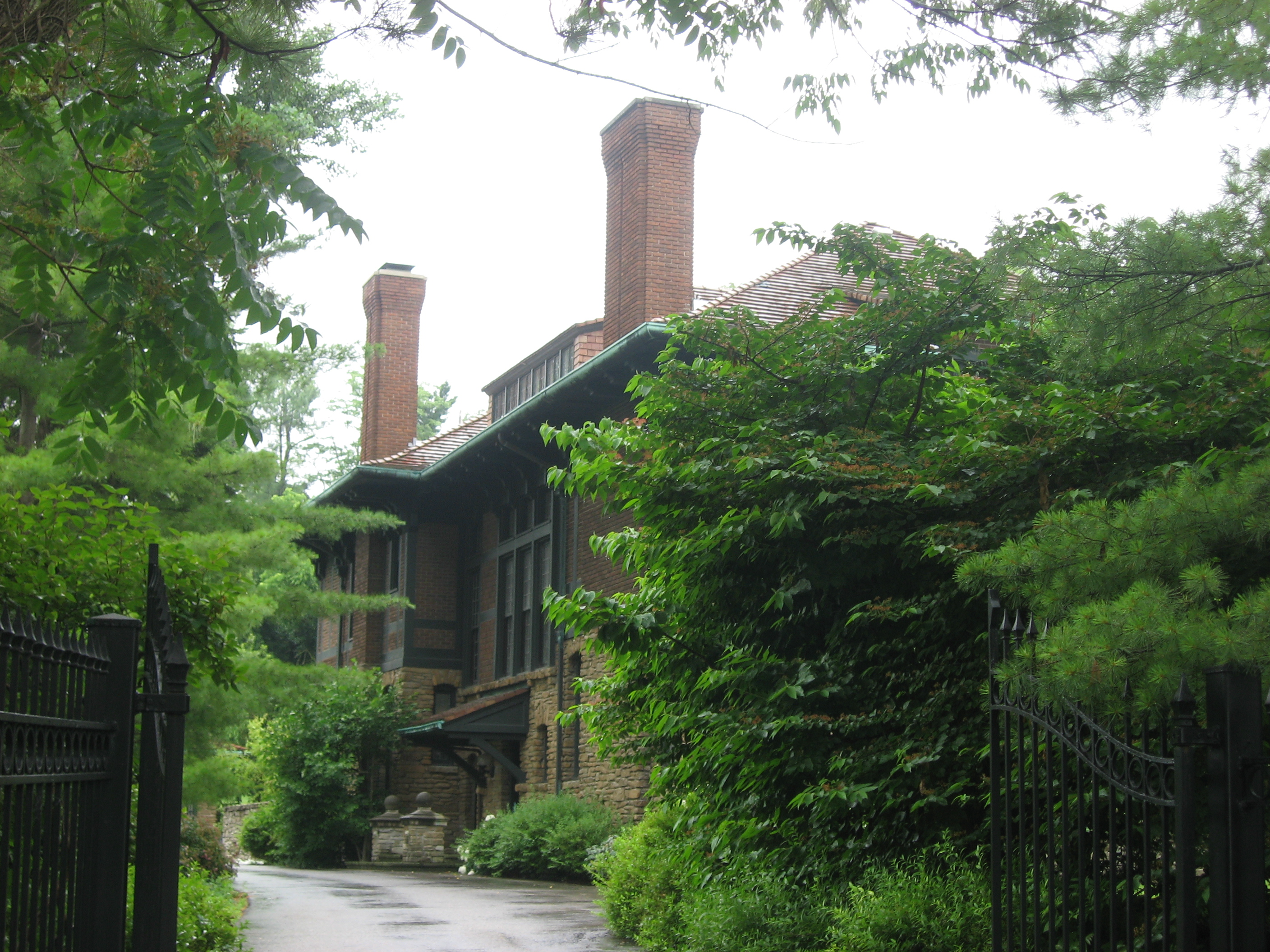 Front of the Harry Milton Levy House, located at 2383 Observatory Avenue in Cincinnati, Ohio, United States. Built in 1917, it is listed on the National Register of Historic Places.